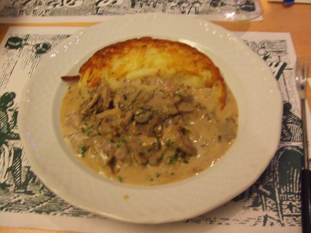 Zürcher Geschnetzeltes is considered by some to be the Swiss national dish, and consists of veal in a spicy rich creamy sauce, it is often served with a Rösti.